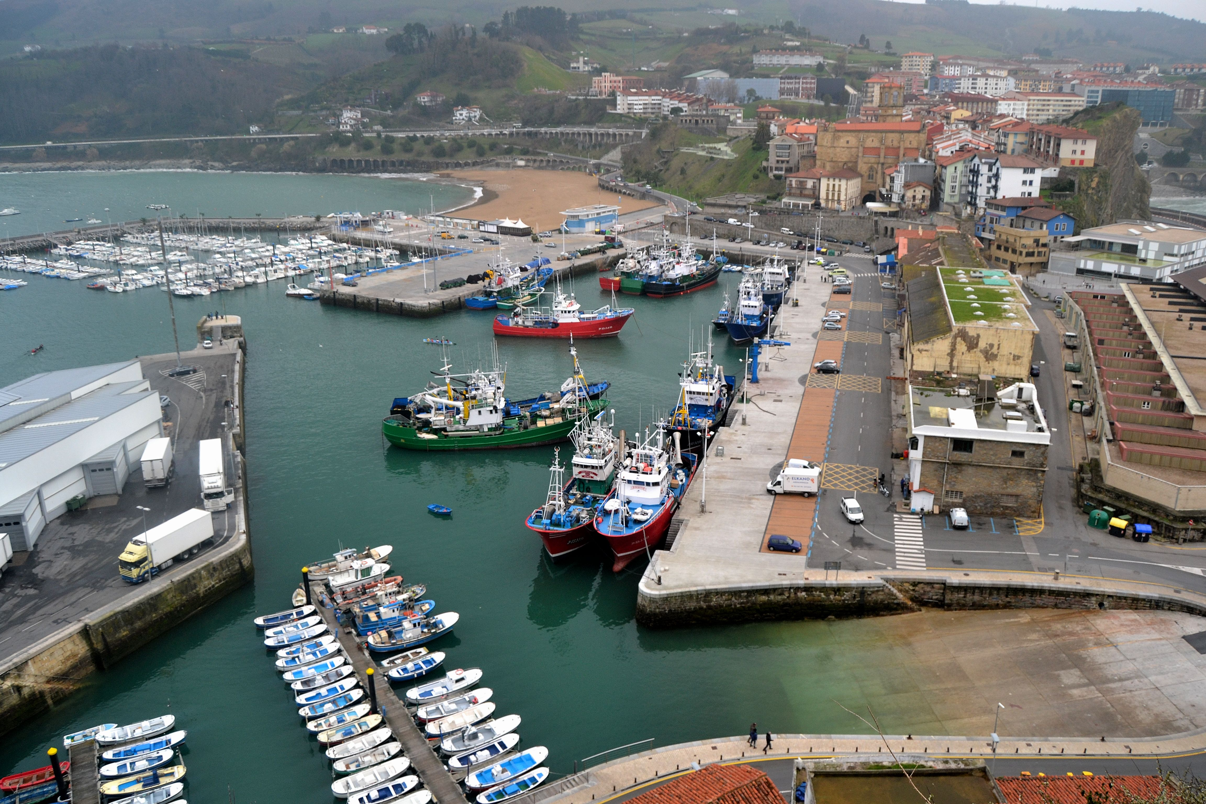 Port of Getaria. Gipuzkoa, Basque Country.